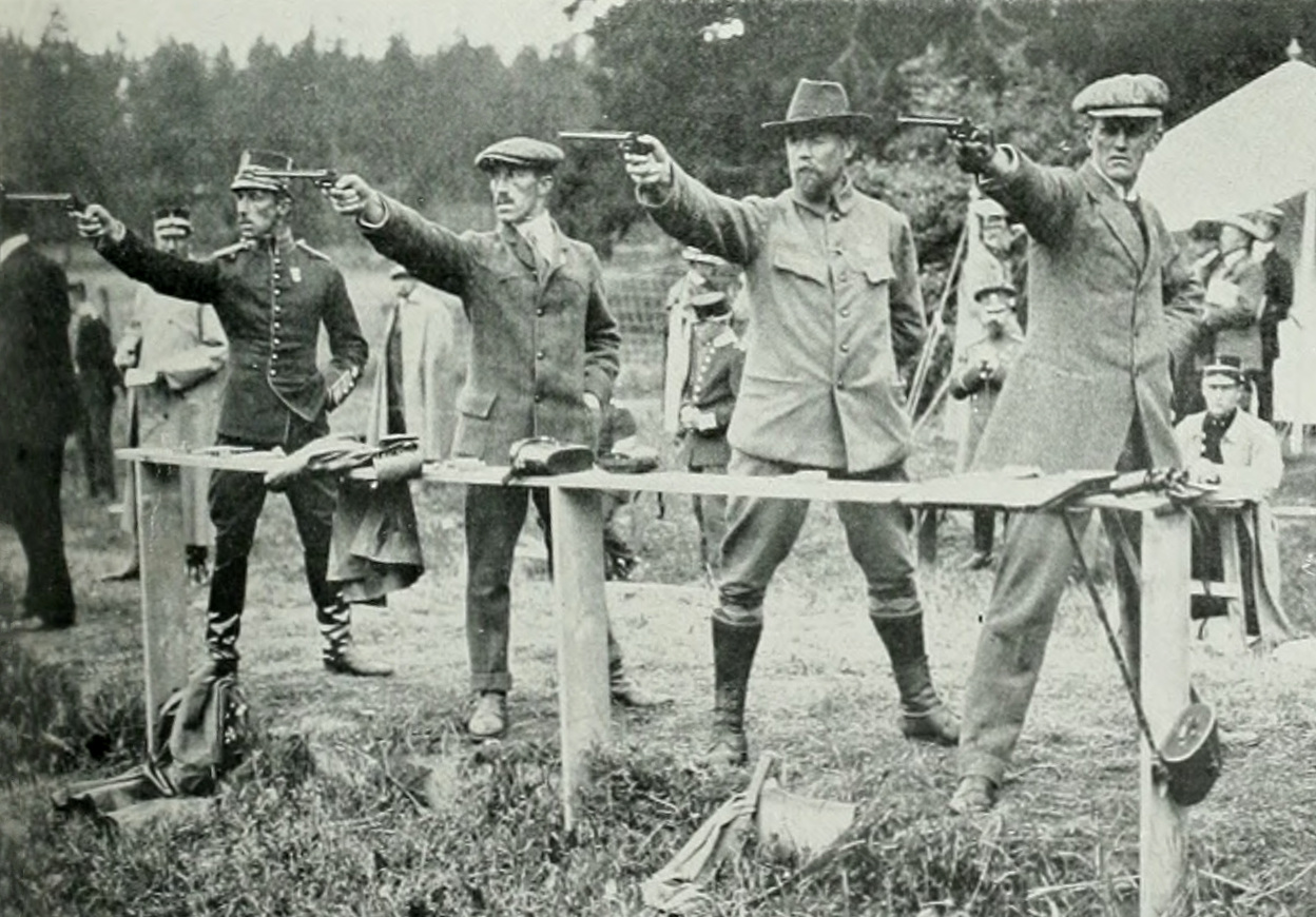 Swedish 50 m free pistol team at the 1912 Olympics